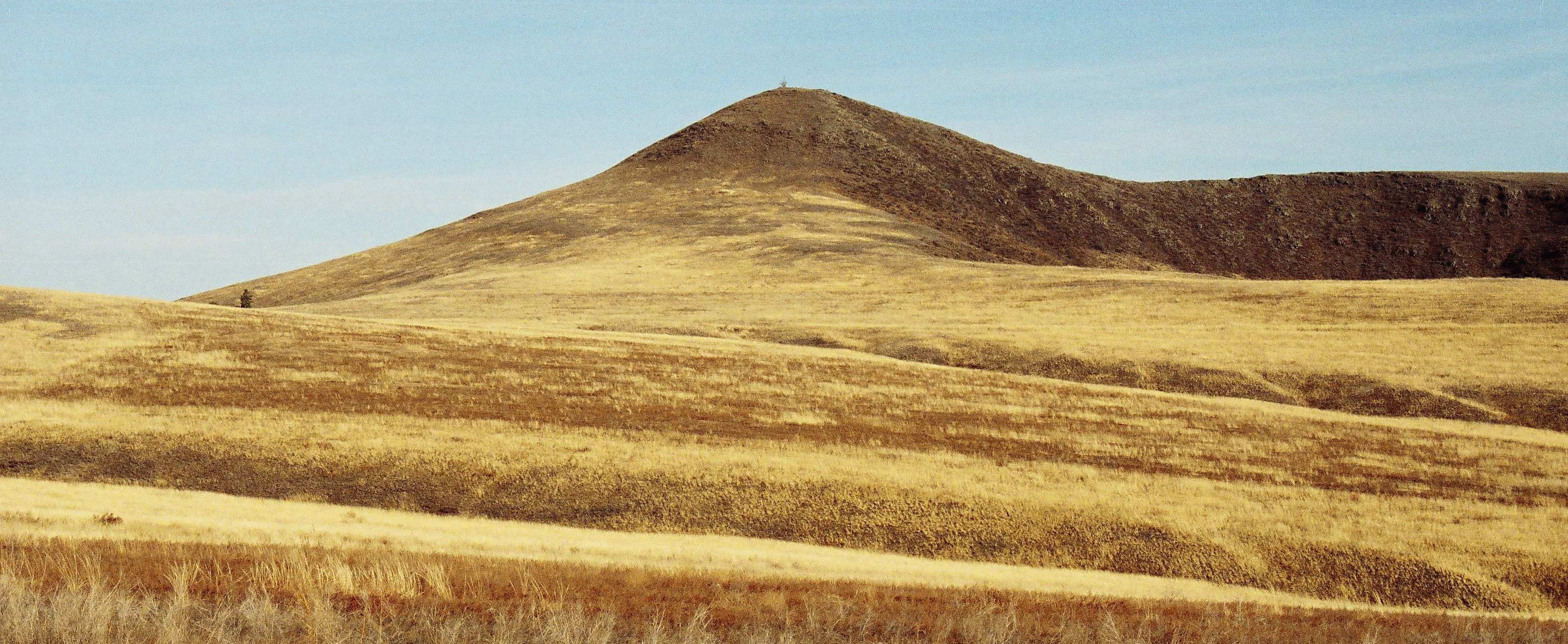 Mount Kharaty - a natural monument and a sacred place. Located in Siberia, in the south of Buryatia, close to the village Zarubino Dzhida district.